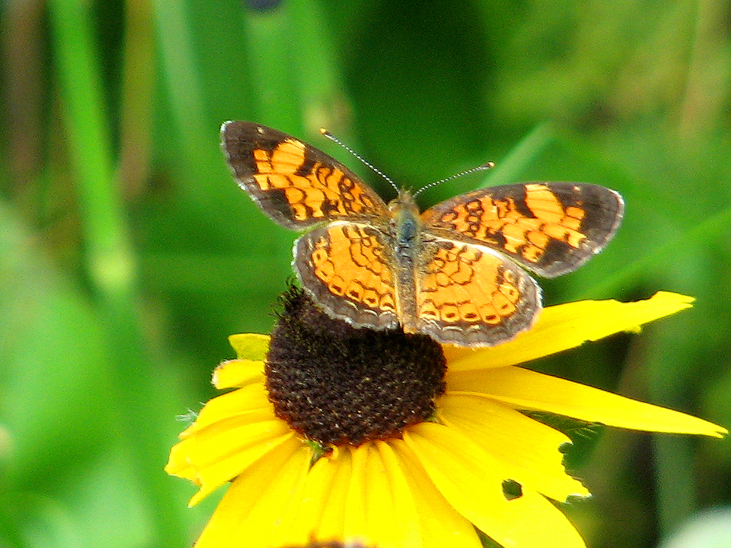 Northern Crescent (Phyciodes cocyta) on sunflower taken along Rideau River, Ottawa, Canada